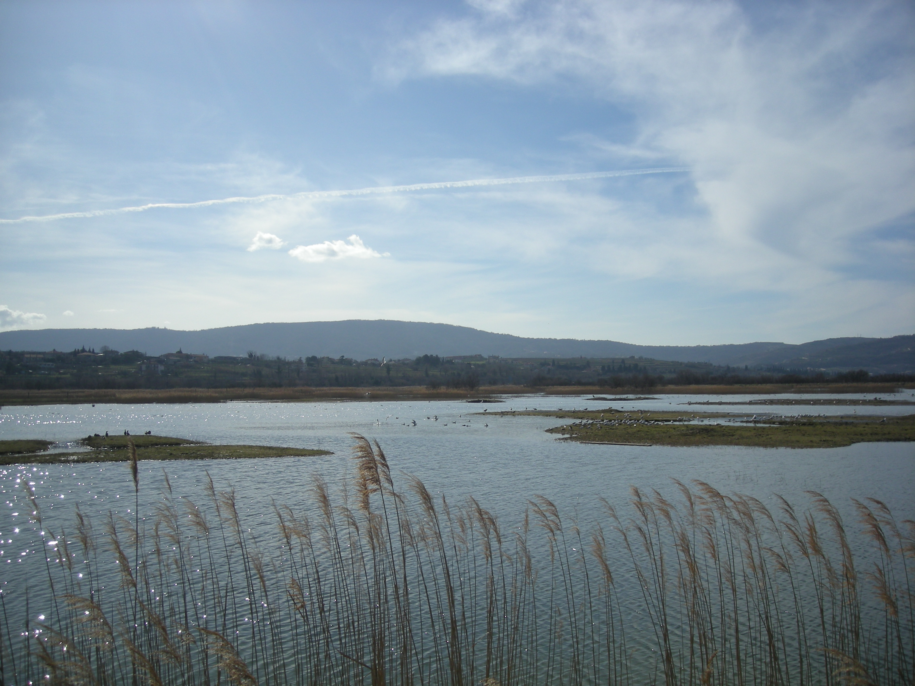 Škocjanski zatok, nature reserve near Koper, Slovenia.